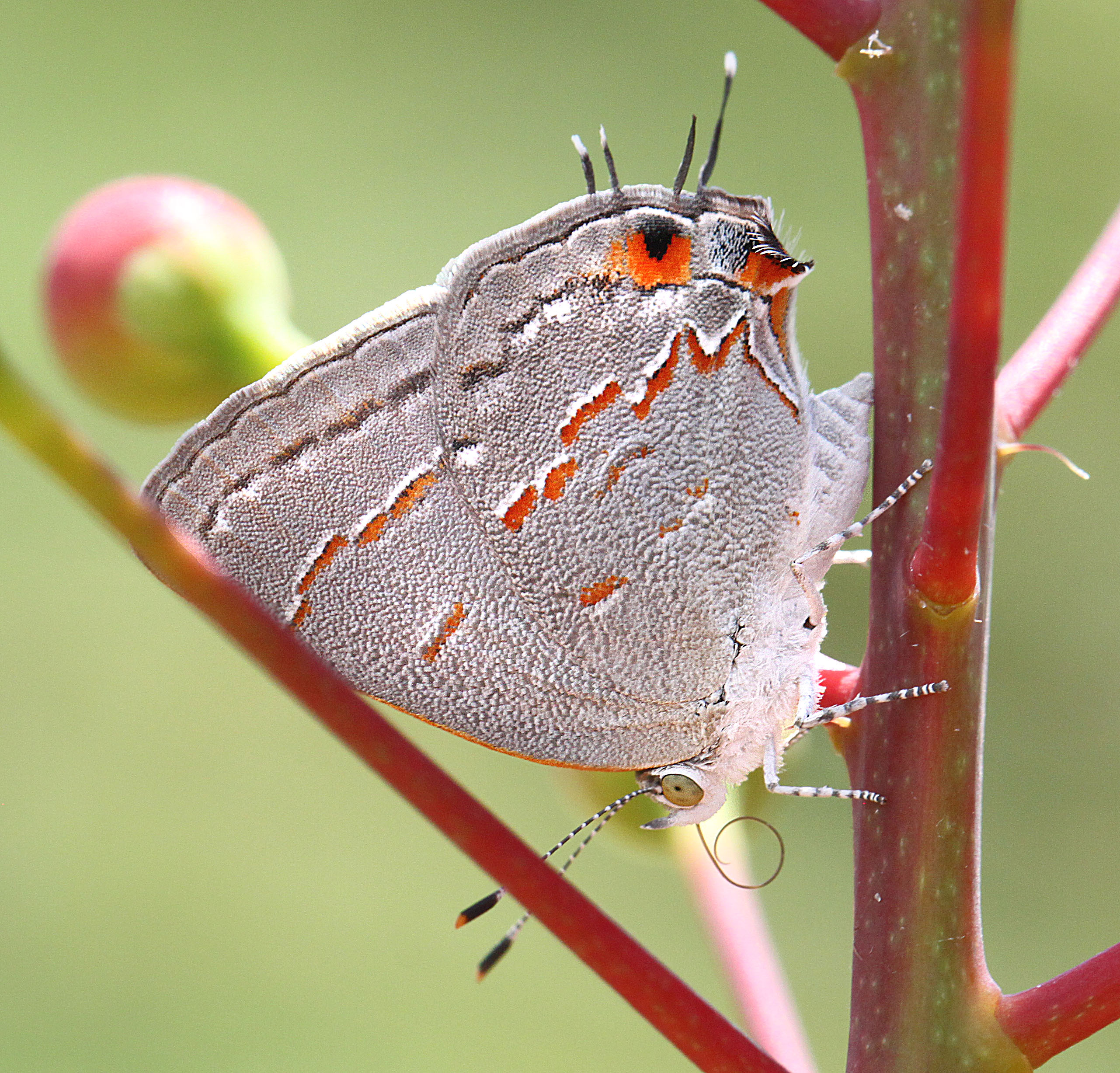 ARIZONA - BUTTERFLIES Butterflies of North America